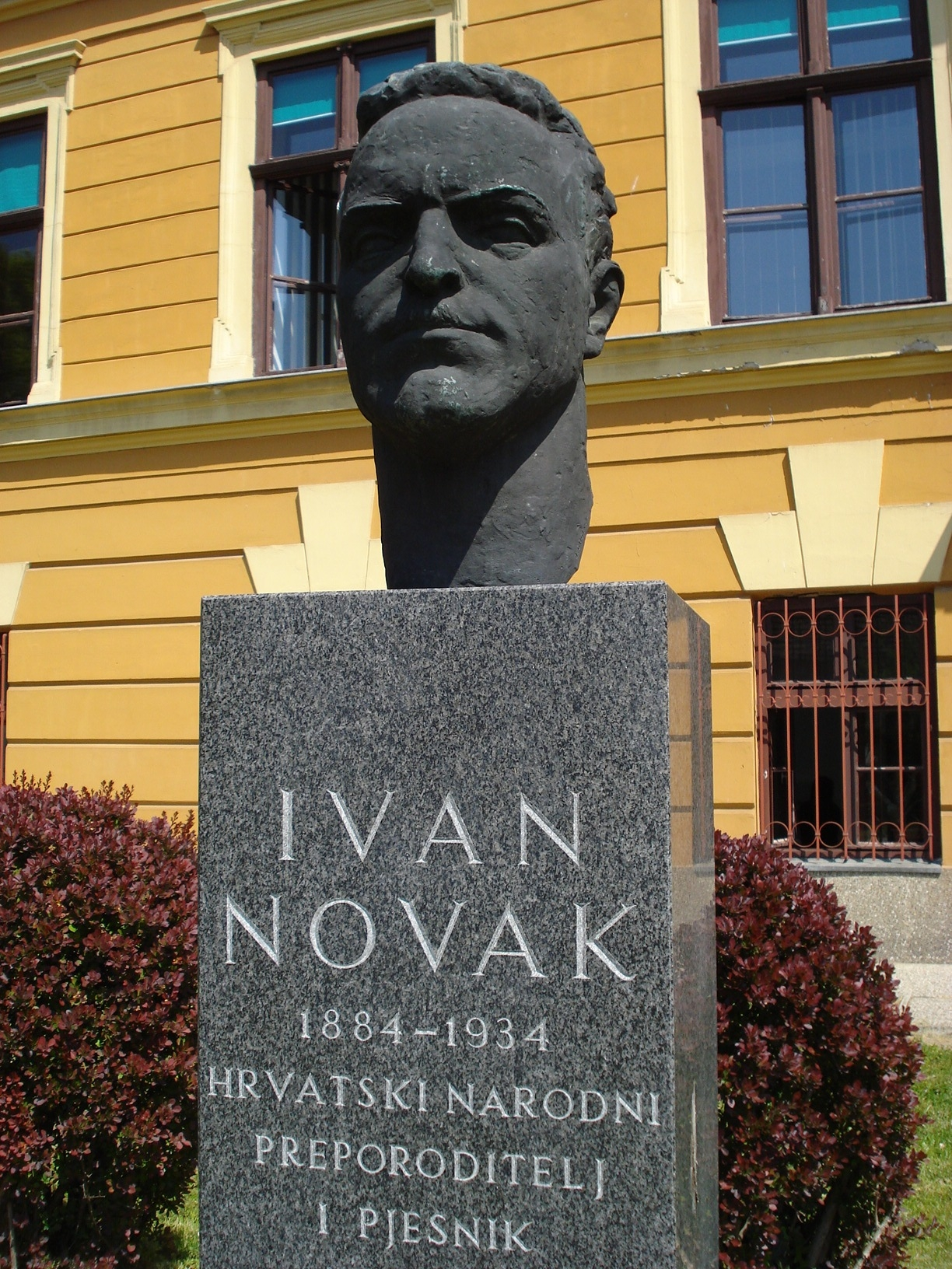 Ivan Novak, Ph.D. - Croatian jurist, publisher, writer and politician (1884-1934) Dr. Ivan Novak - hrvatski pravnik, publicist, književnik i političar (1884-1934)